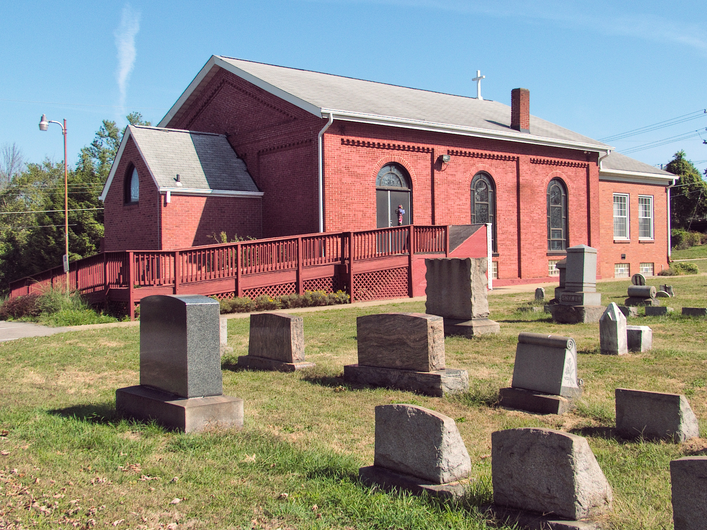 North Zion Lutheran Church (built 1859), Baldwin, Pennsylvania